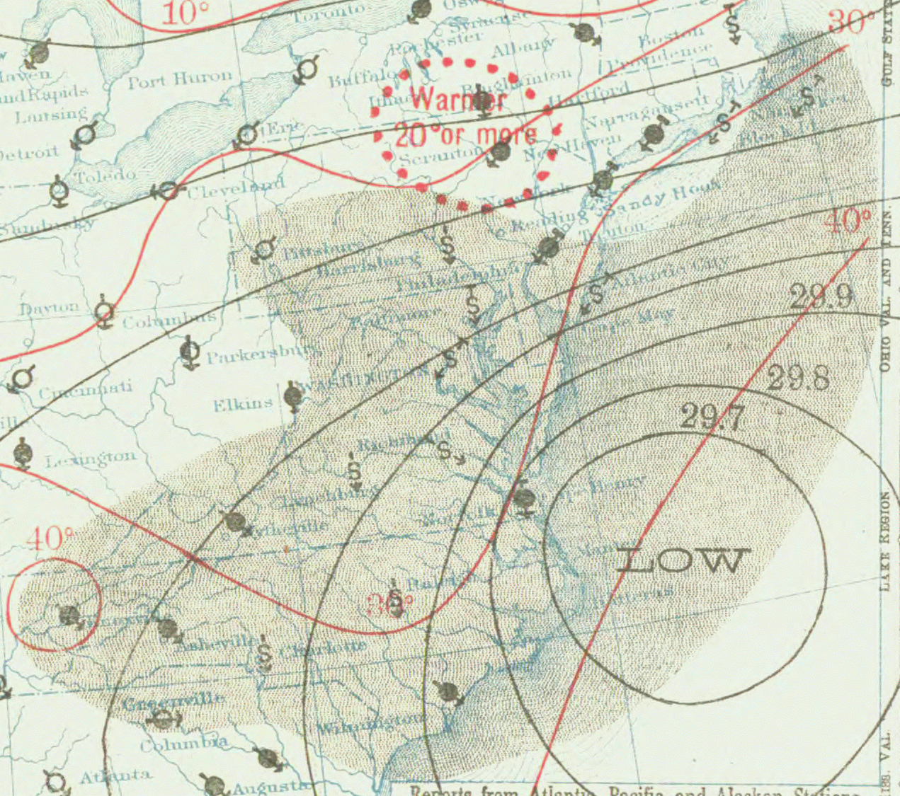 Daily Weather Maps, originally by the U. S. Weather Bureau